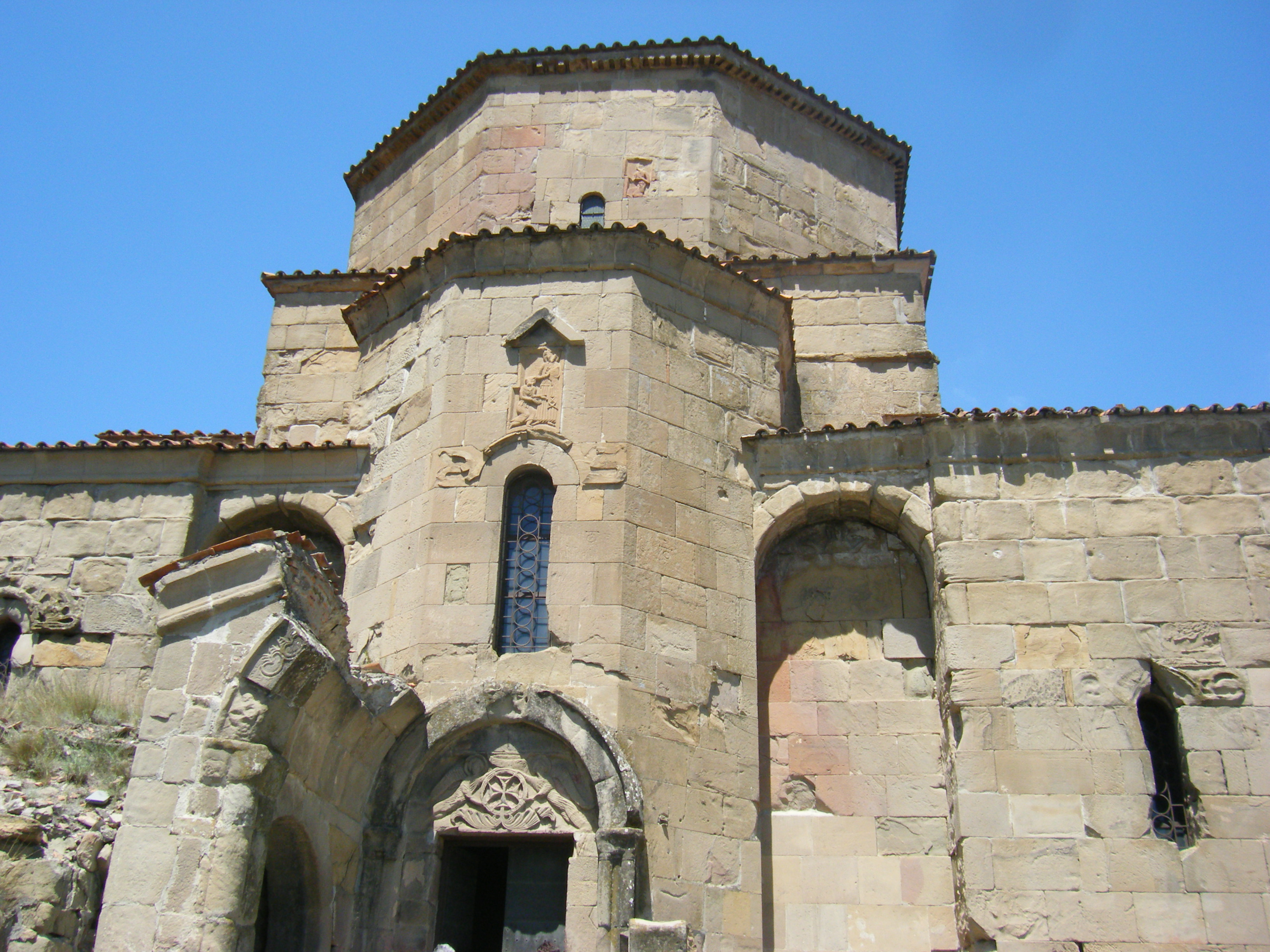 Jvary Monastery (Monastery of the Cross) in Mtskheta, Georgia.